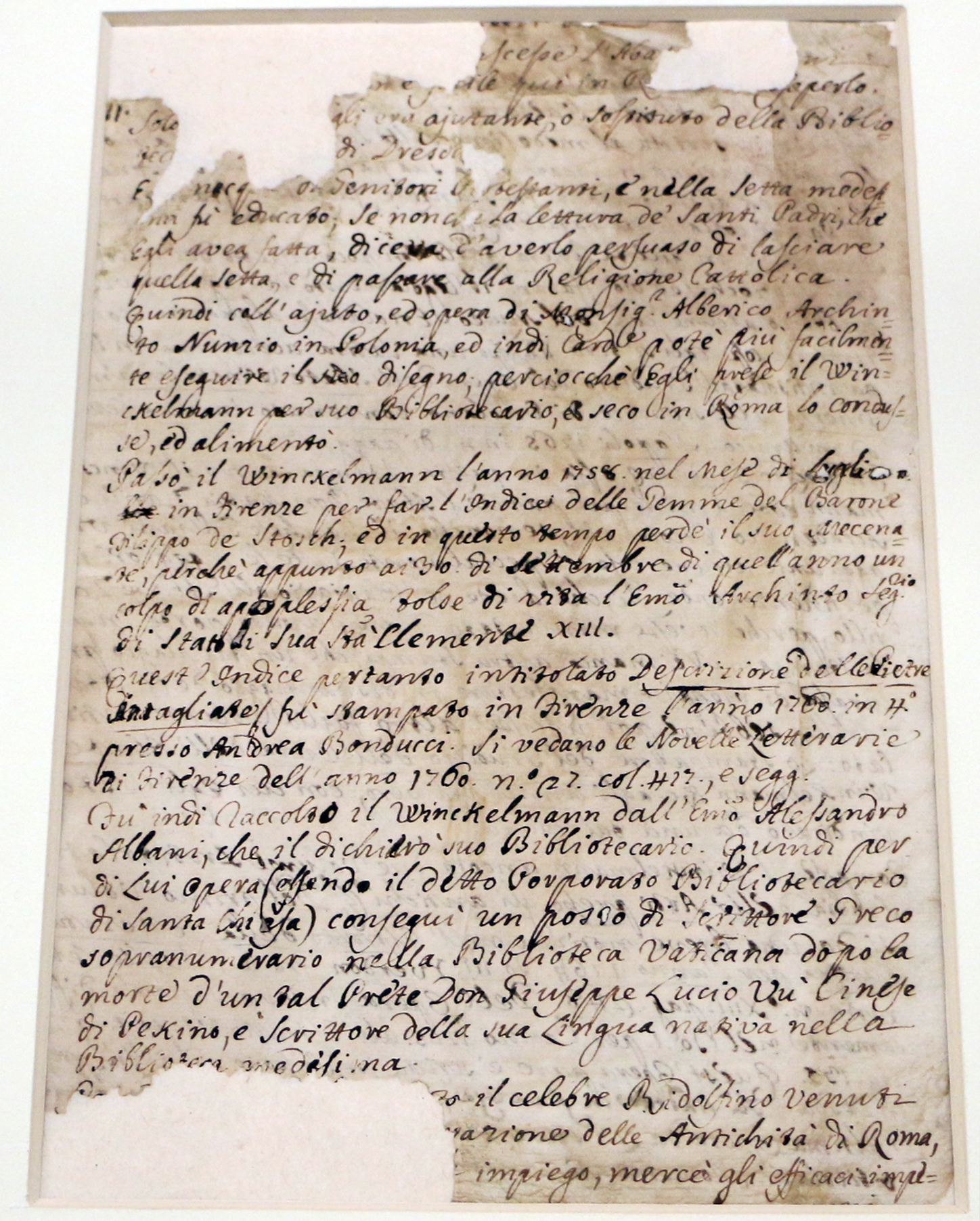 Winckelmann, Firenze e gli Etruschi (2016 exhibition)